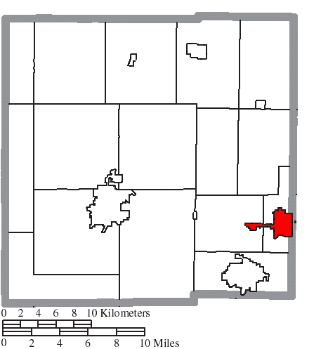 Map of the municipal and township boundaries of Crawford County, Ohio, United States, as of the 2000 census, with the location of the village of Crestline highlighted. Township borders are shown only in unincorporated areas in order to differentiate incorporated and unincorporated areas more clearly.